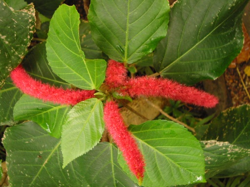 Acalypha hispida, Jardin des Plantes de Strasbourg